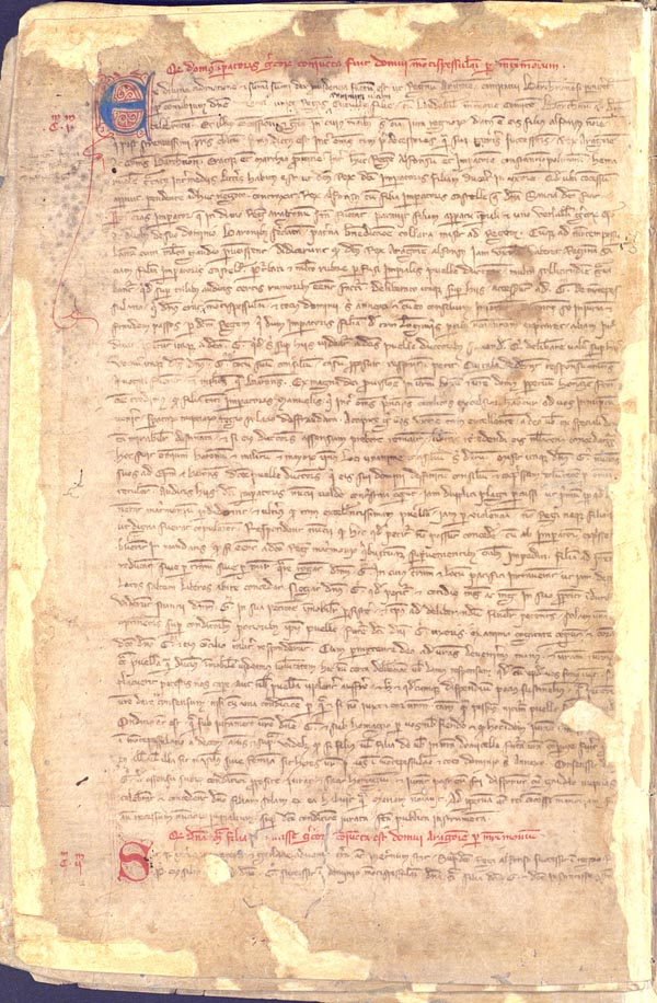 Latin language translation of the Llibre dels fets chronicle